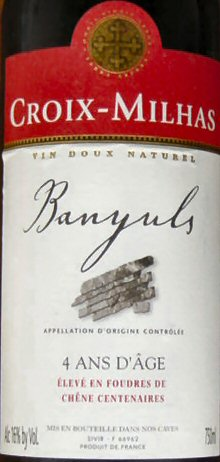 Label of "Croix-Milhas", a Banyuls wine, a sweet red Vin doux naturel, a French style of fortified wine.